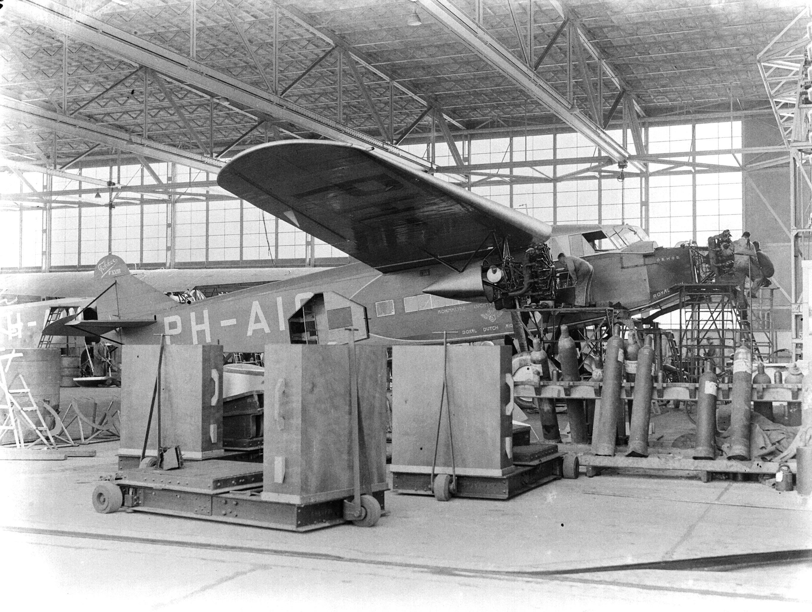 Fokker F.XVIII "Oehoe" of KLM